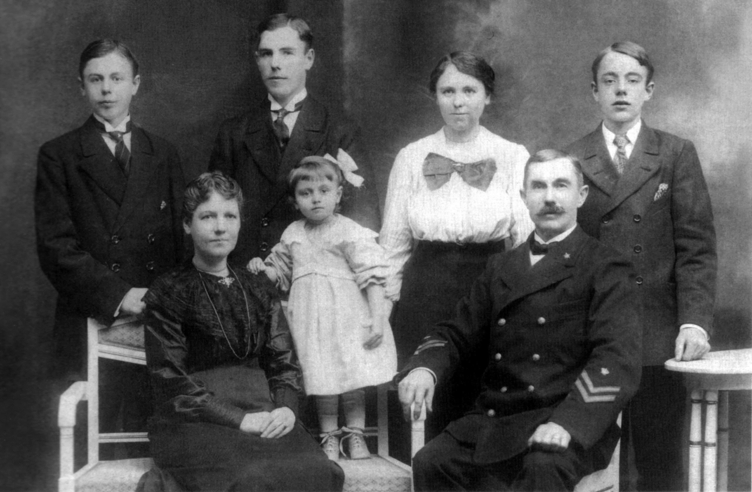 A Swedish family with their five children in 1898.